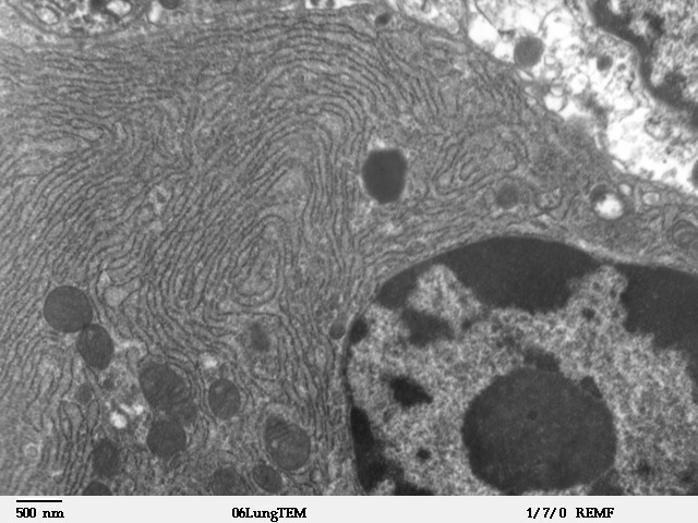 Transmission electron microscope image of a thin section cut through an area of mammalian lung tissue. This image of a bronchiolar exocrine cell (Club cell) shows a nucleus and cytoplasmic organelles, such as rough endoplasmic reticulum and mitochondria. JEOL 100CX TEM